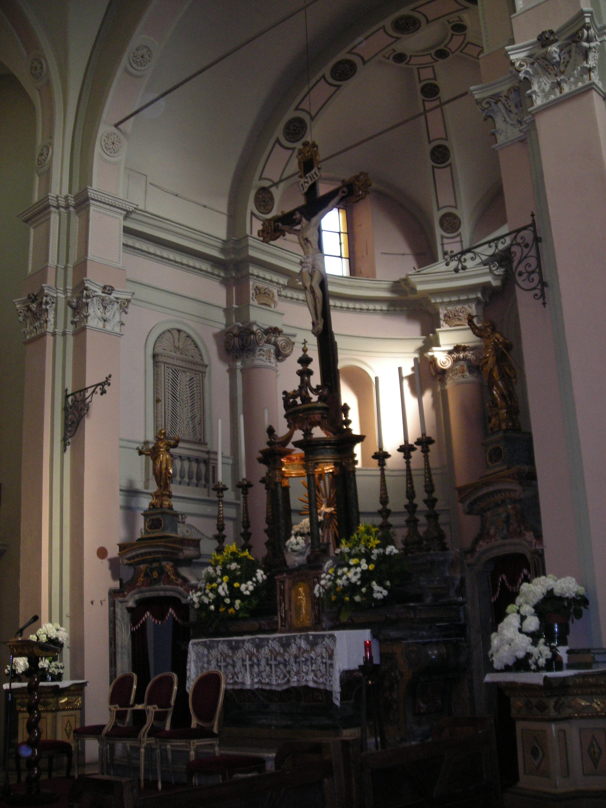 High Altar of the Churc "Saints Peter and Paul" of Leini (Turin).